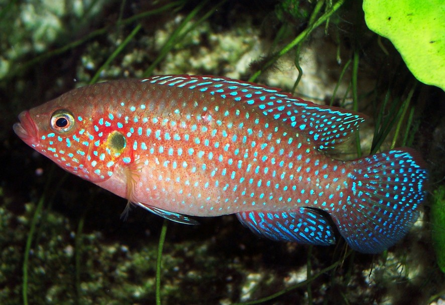 Hemichromis lifalili